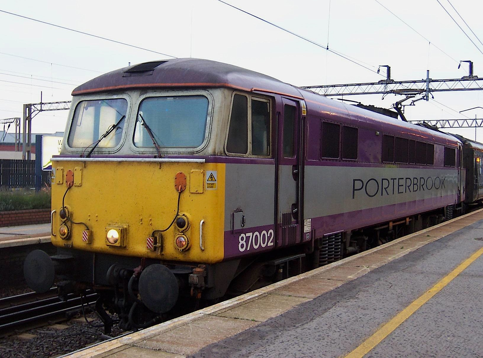 Virgin Trains West Coast Class 87/0 No. 87002 in Porterbrook livery at Watford Junction